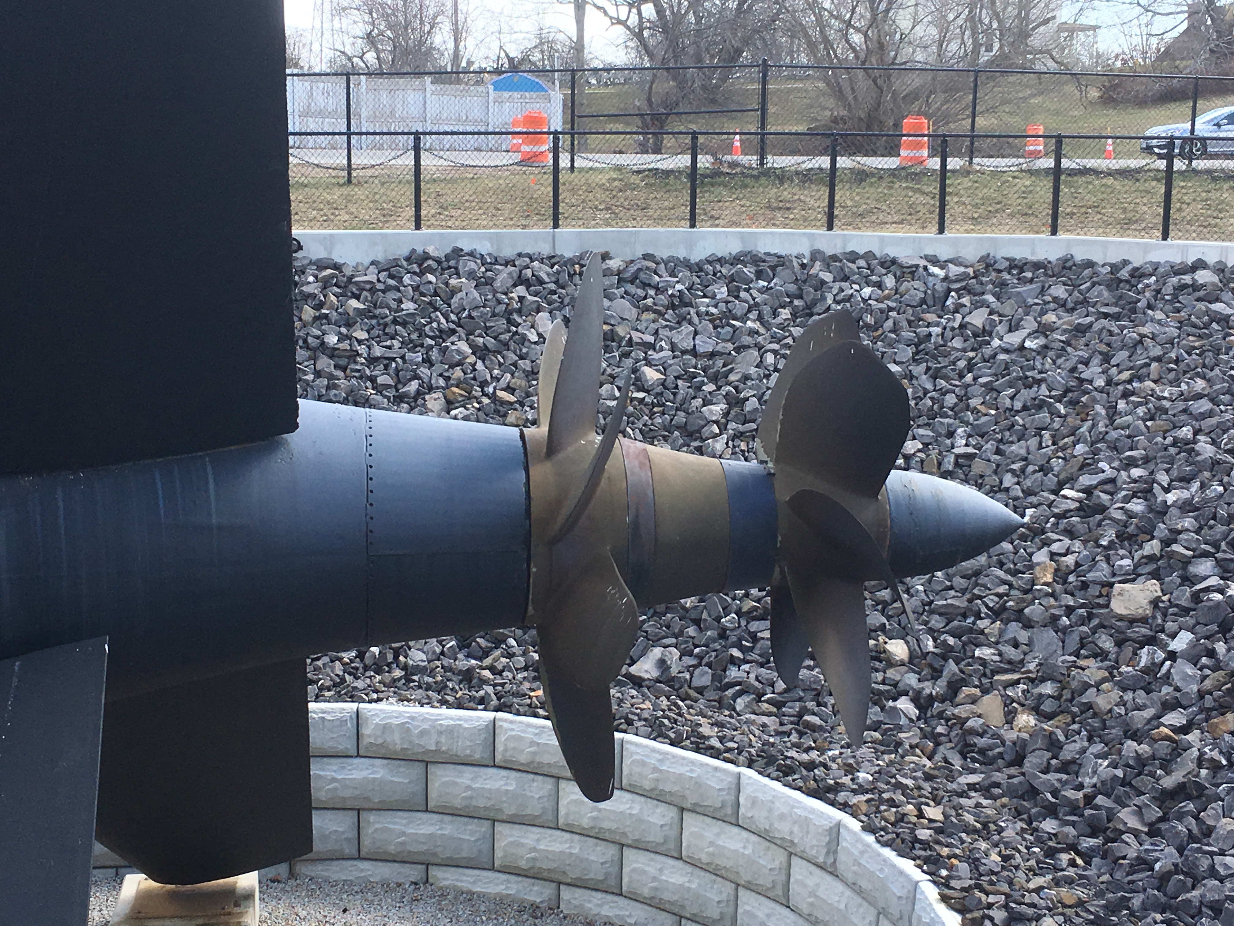 USS Albacore (AGSS-569) submarine active in the US Navy from 1953 to 1972, used for research. Photographed in April 2018 at its permanent display site in Portsmouth, New Hampshire. Detail of counter-rotating props.